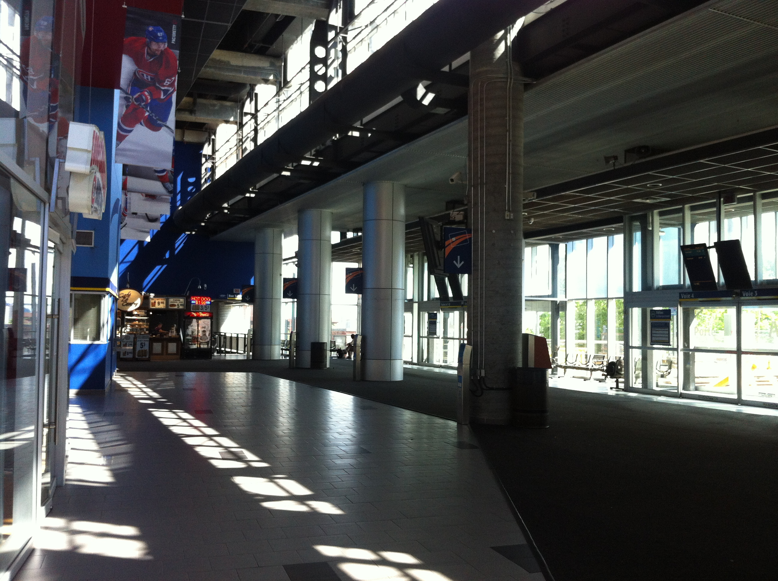 Lucien L'Allier Station, terminal of 3 different AMT lines.